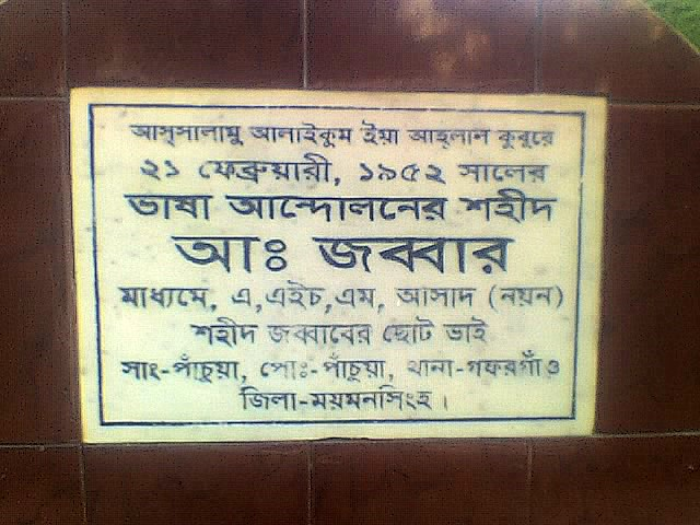 Epitaph on the grave of A. Jabbar, Language activist, killed during the Language Movement of 1952.